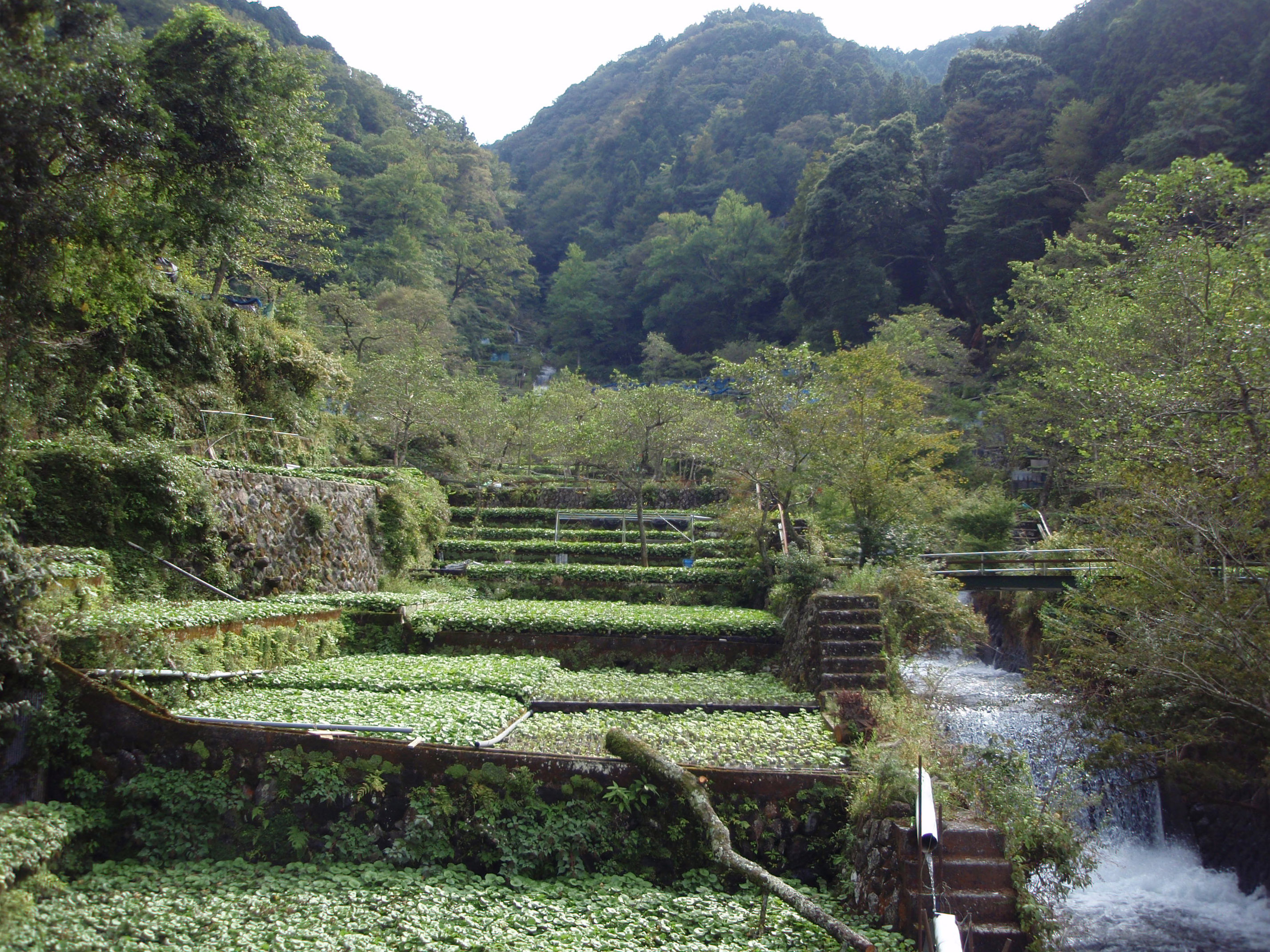 Ikadaba Wasabi Fields in Izu, Shizuoka Prefecture, Japan.